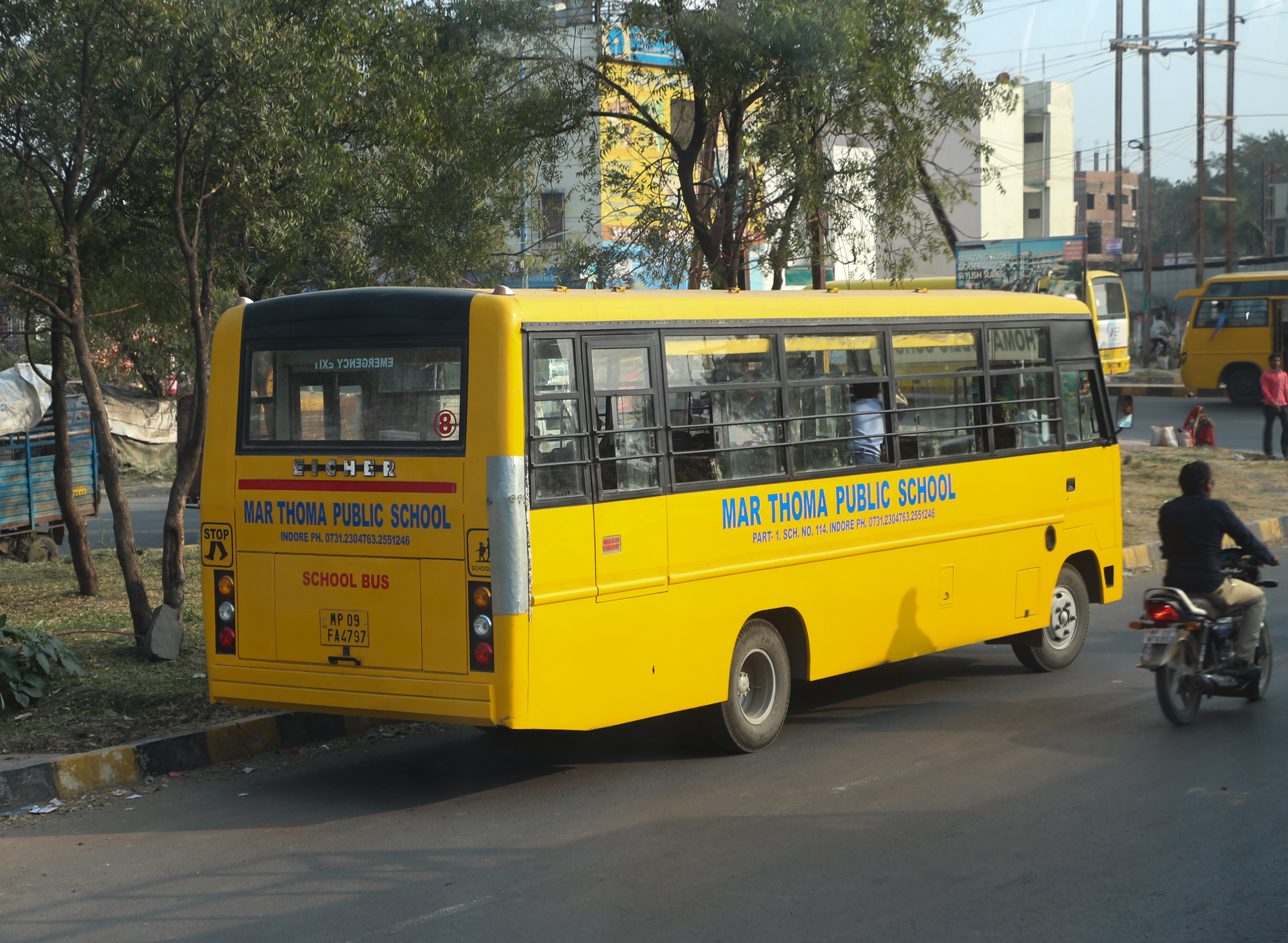 A school bus in Indore, India